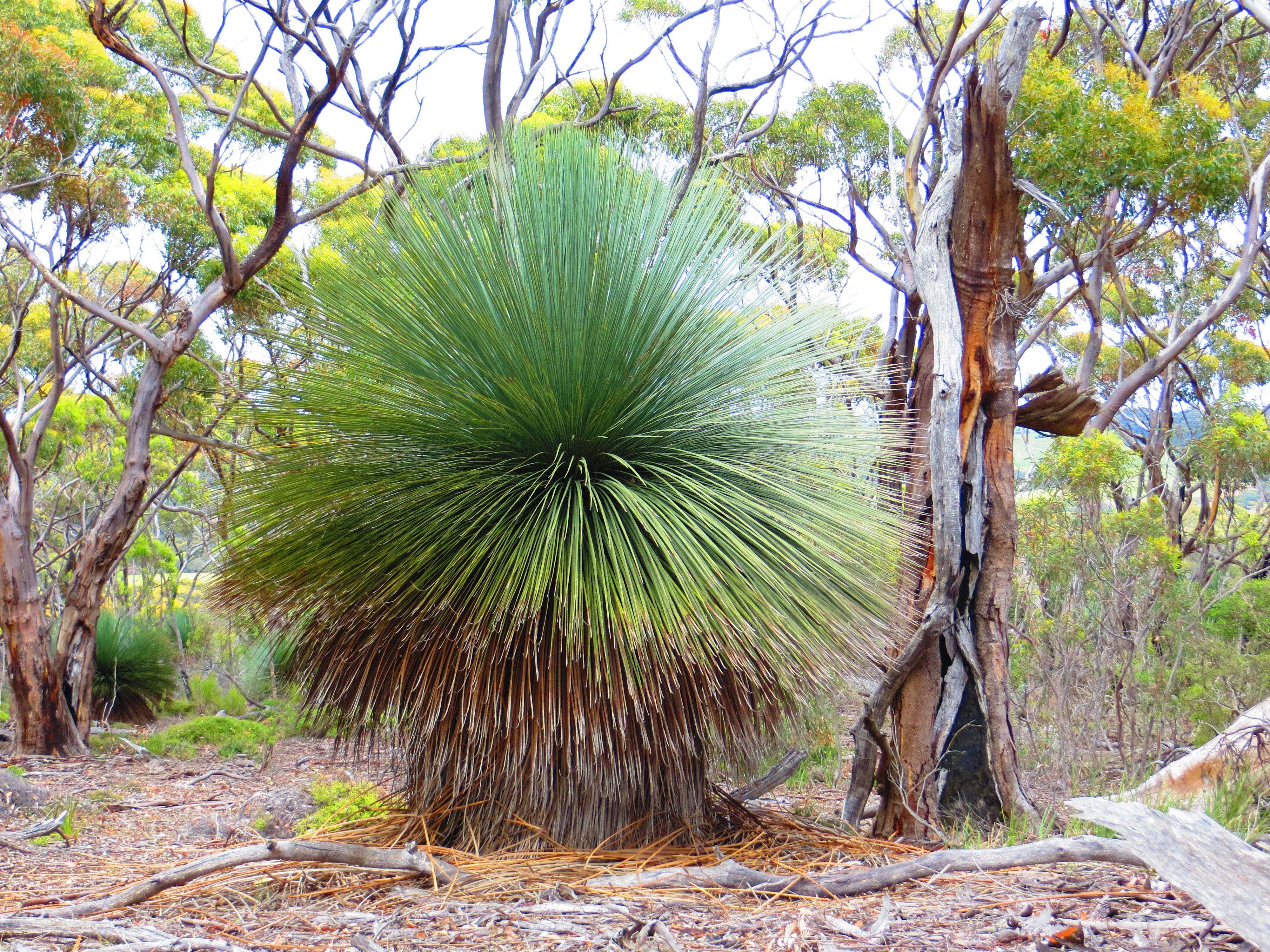 Kangaroo Island grass tree (Xanthorrhoea semiplana tateana). Cape Cassini, Kangaroo Island, South Australia.